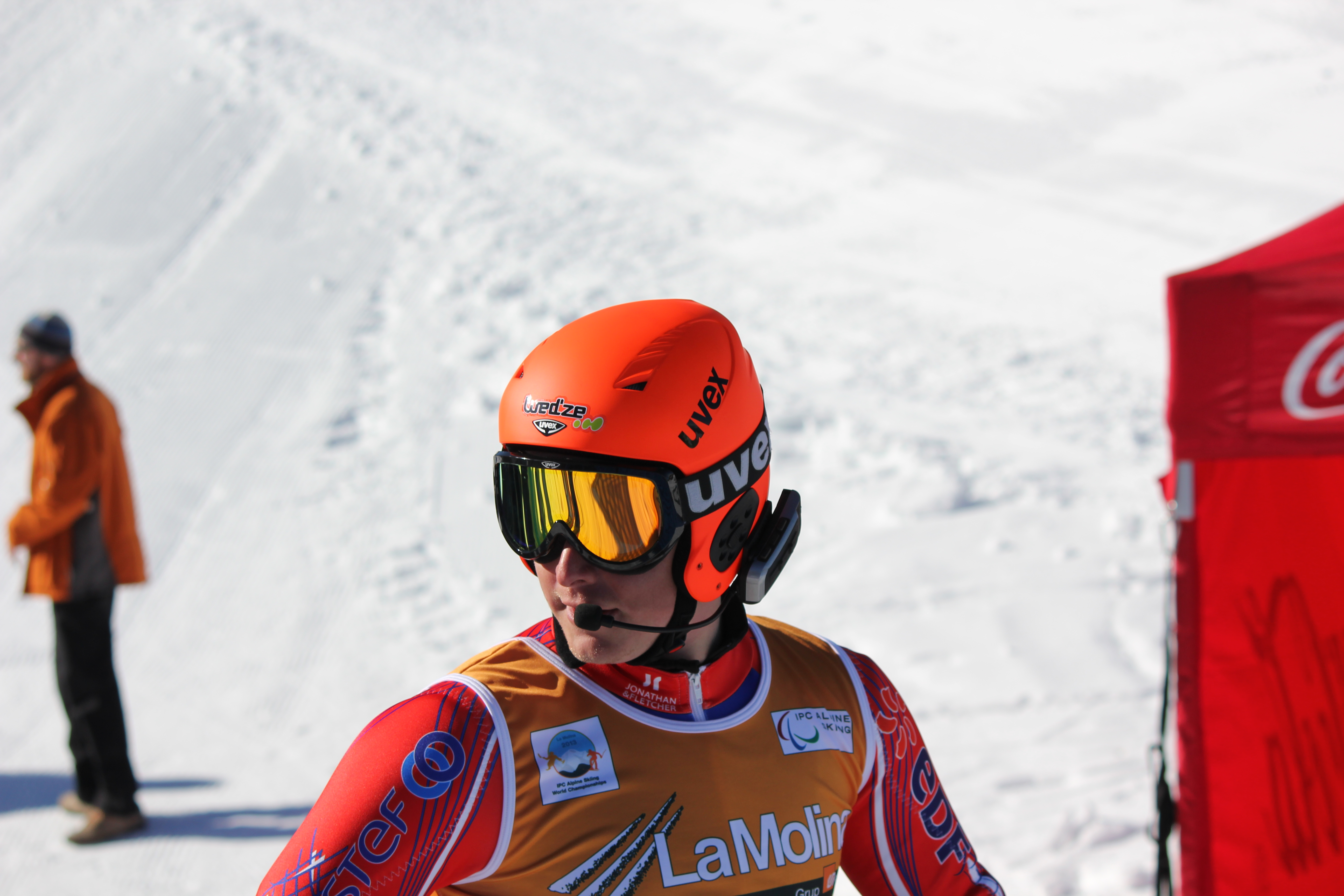 La Molina, Spain on the downhill competition day at the 2013 IPC Alpine World Championships. Men's visually ski guide Gregory Nouhaud from France.